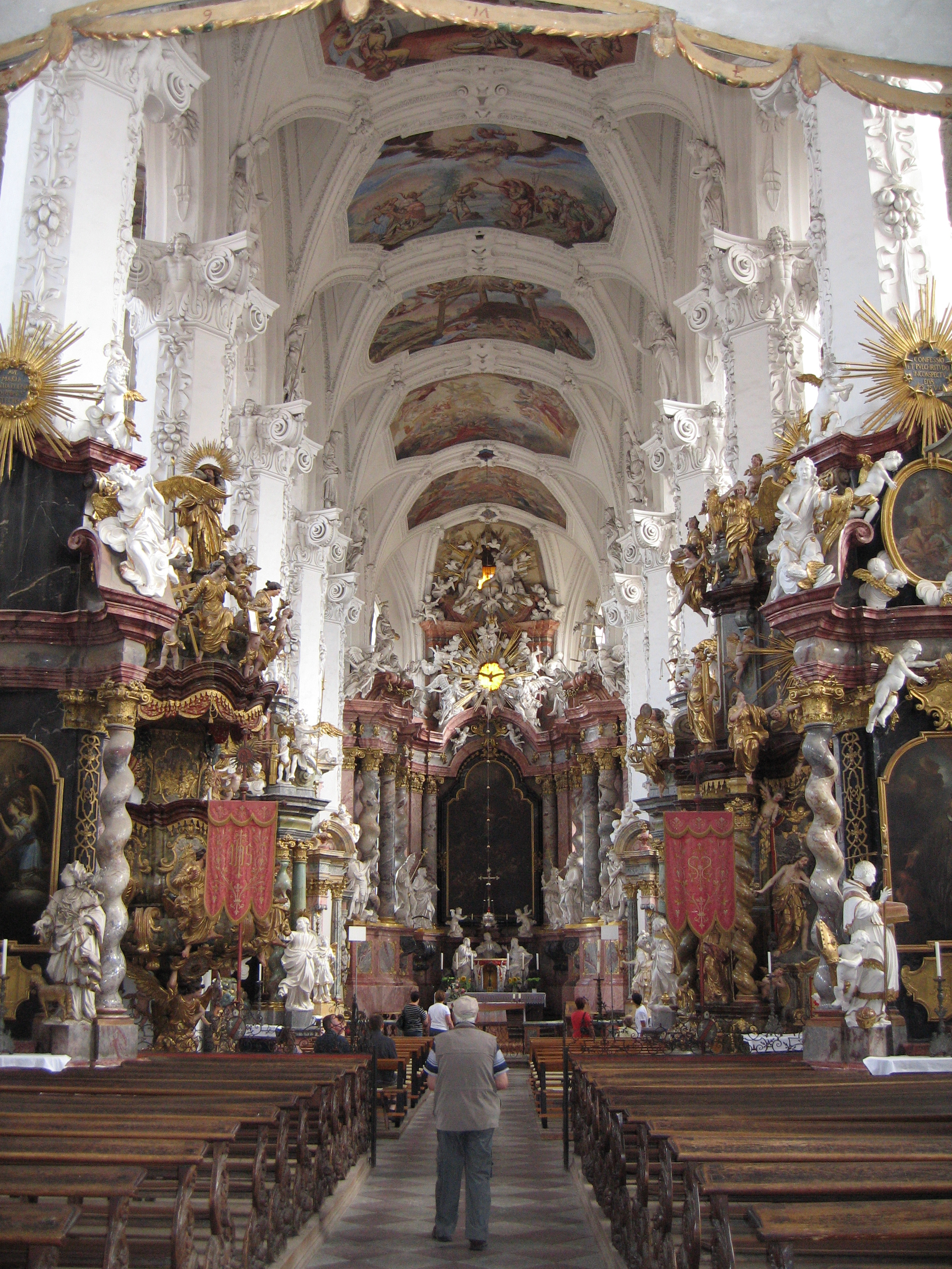 Neuzelle church